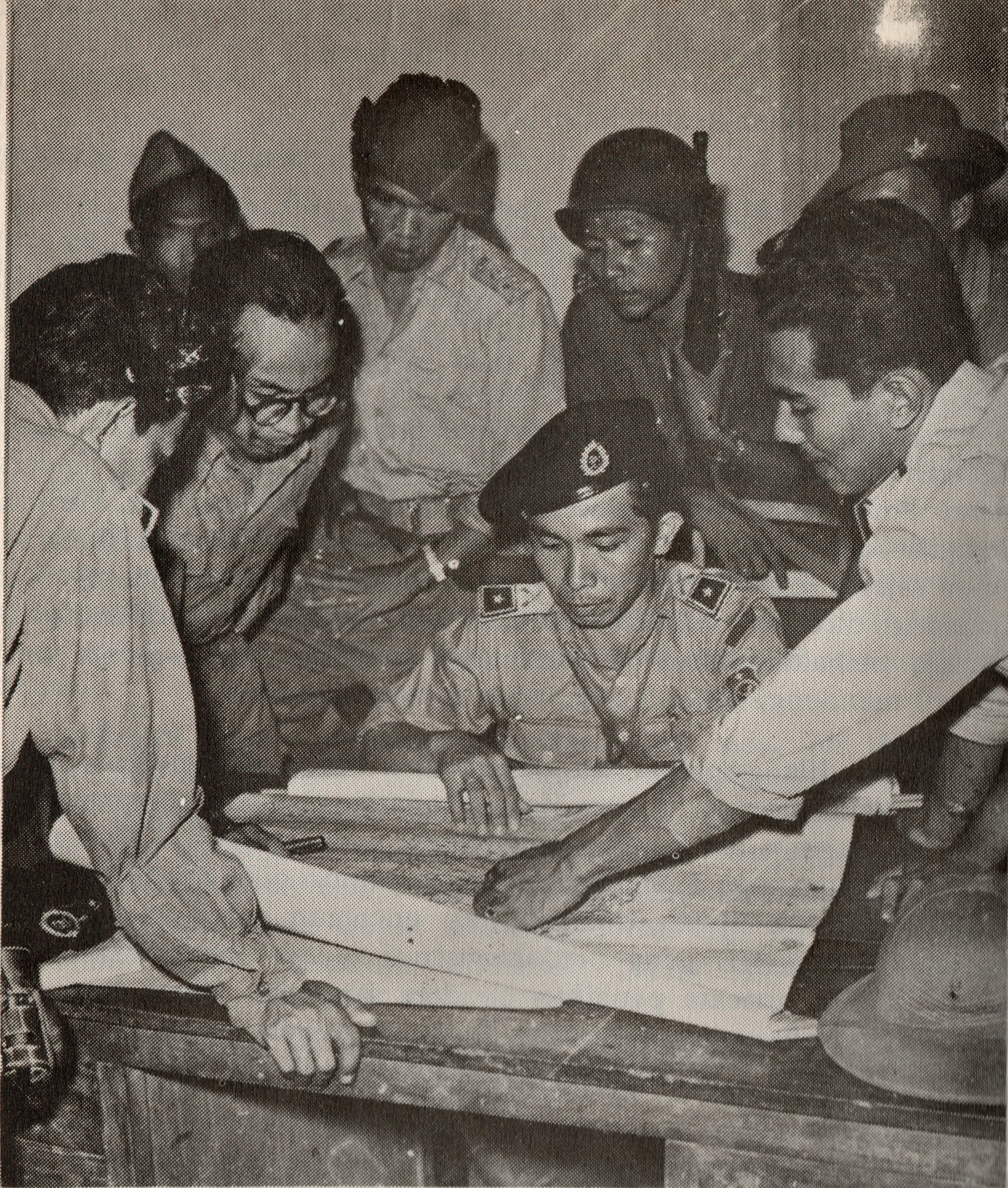 The commander of the Worang Battalion, Major HV Worang, is seen here giving instructions to several of the commanders of his company, after his battalion has successfully landed in Sulawesi.